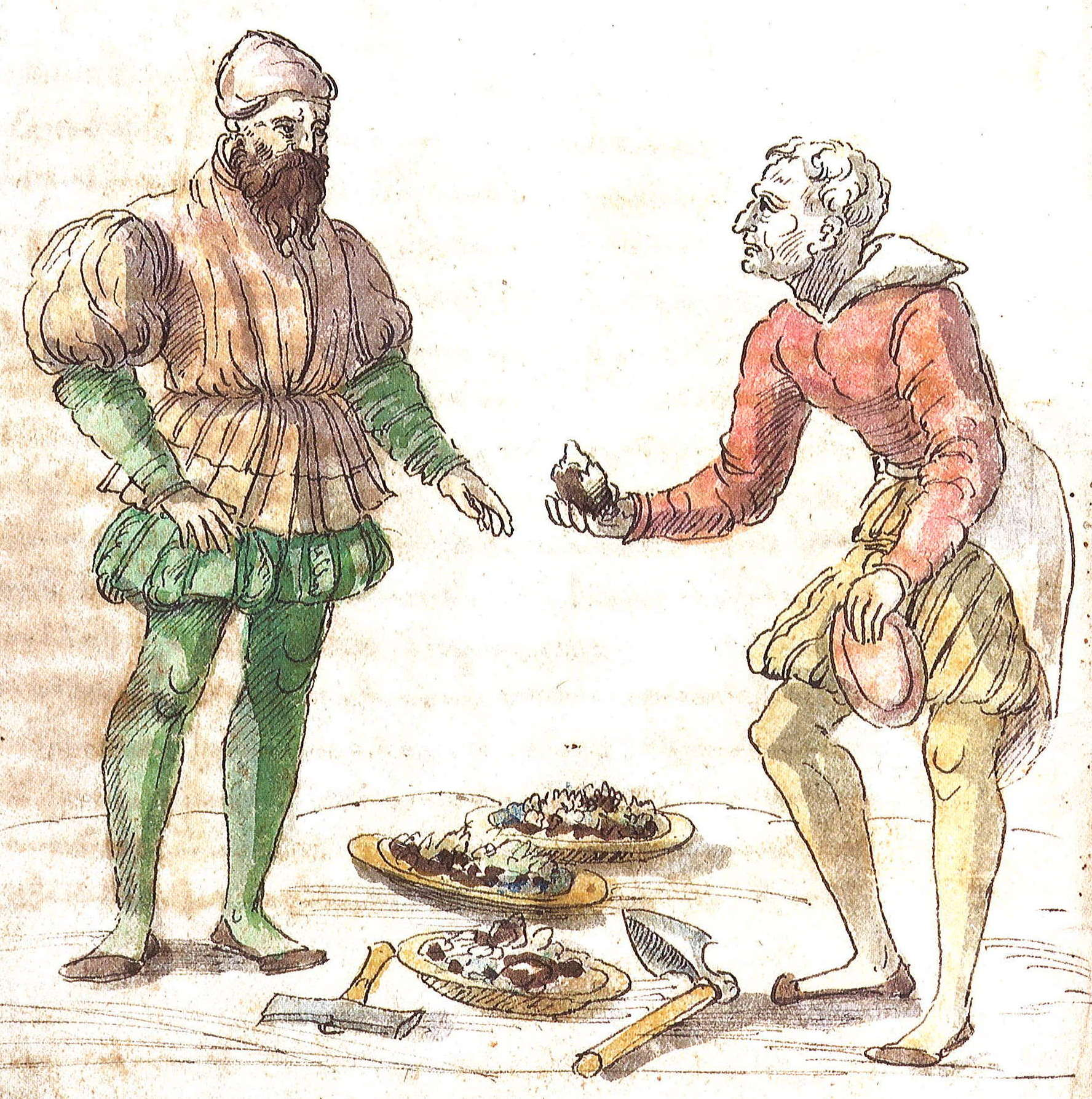 Illustration from the "Schwazer Bergbuch" (1556)